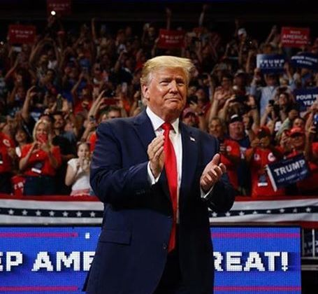 Donald Trump announced the 2020 re-election campaign in Orlando, Florida, 18 June 2019